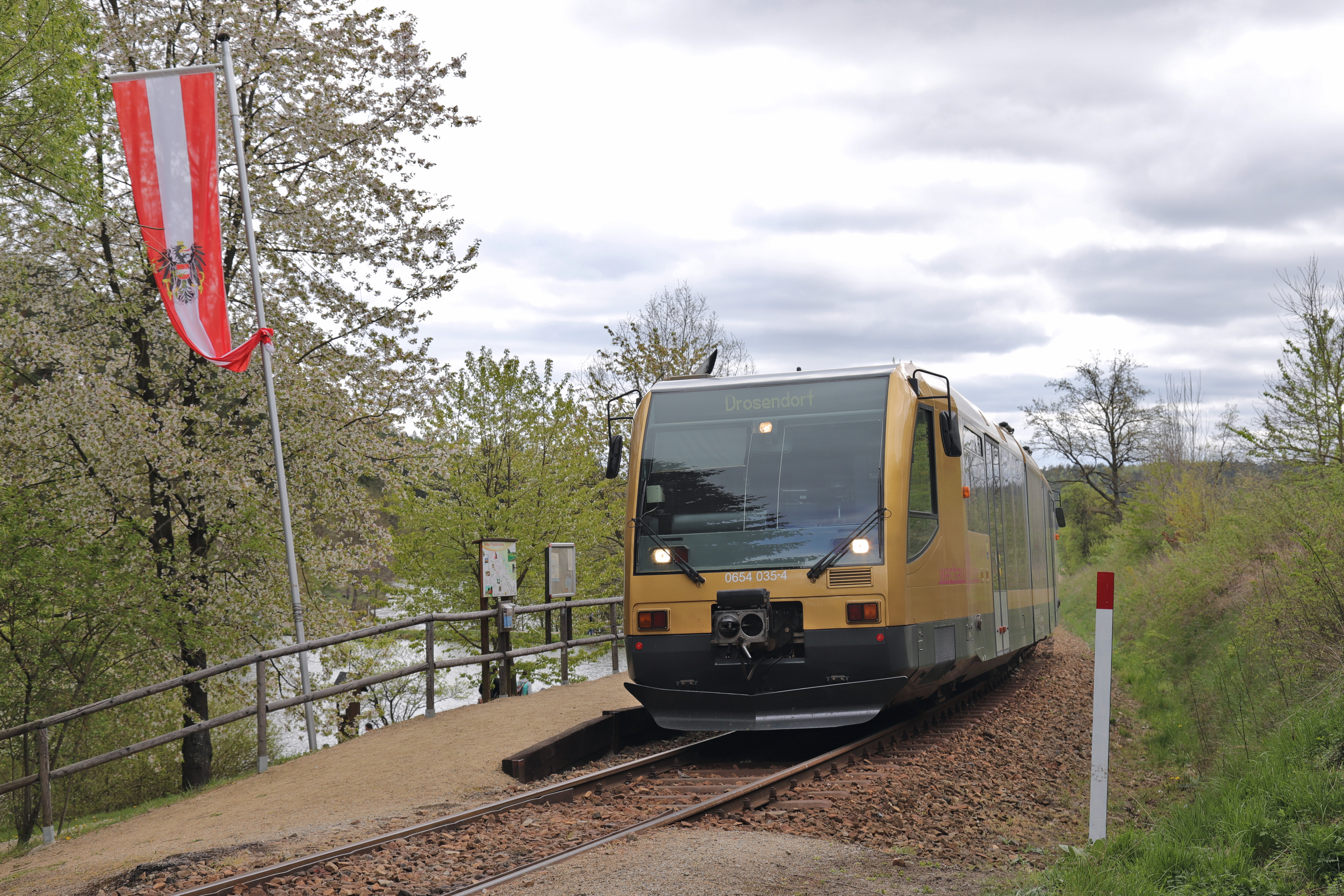 NÖVOG-RegioSprinter 0654 035 at Anglerparadies Hessendorf halt